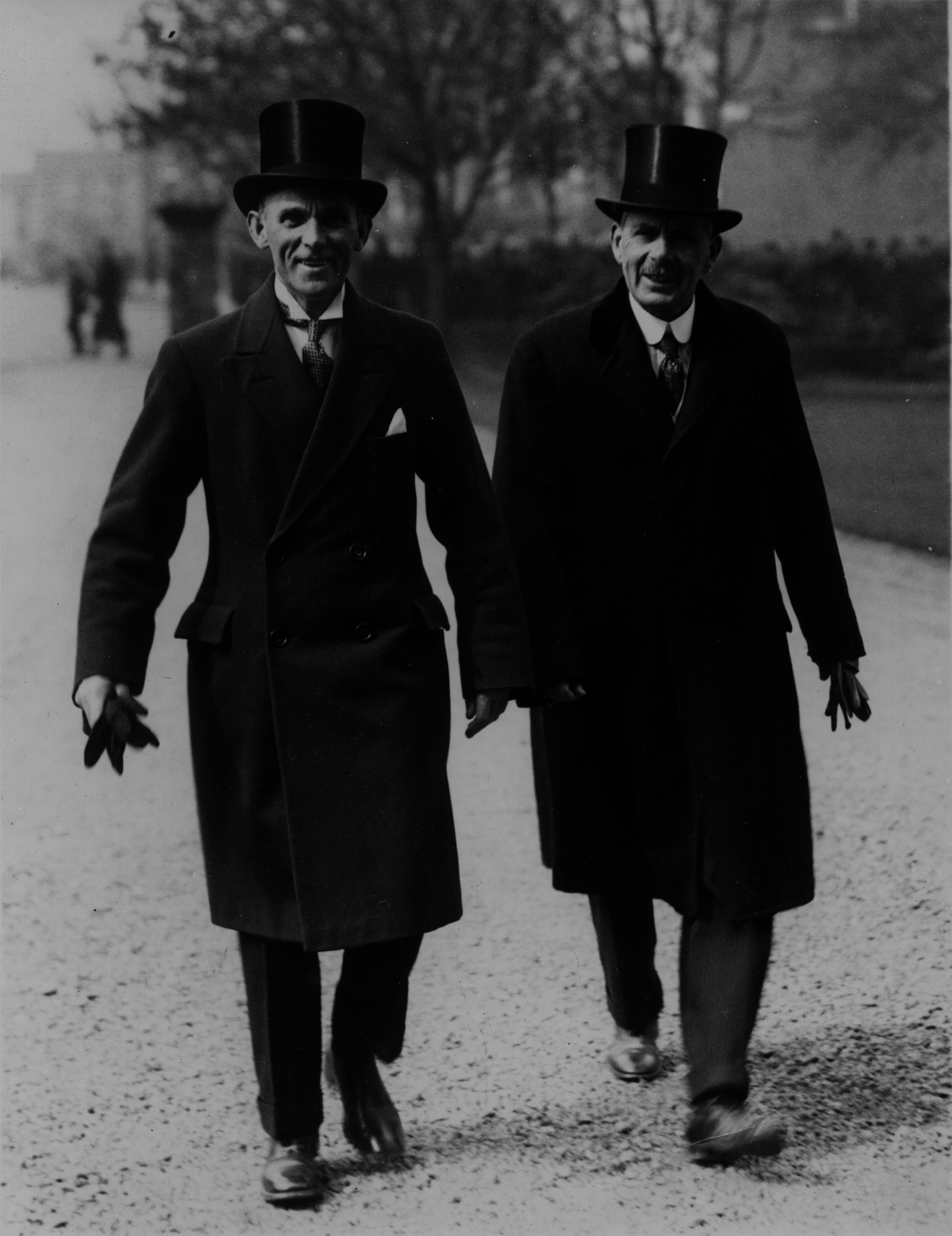 John F. Gordon MP and Northern Irish prime minister John Andrews. Believed to be at Stormont in the 1940s. Family collection.